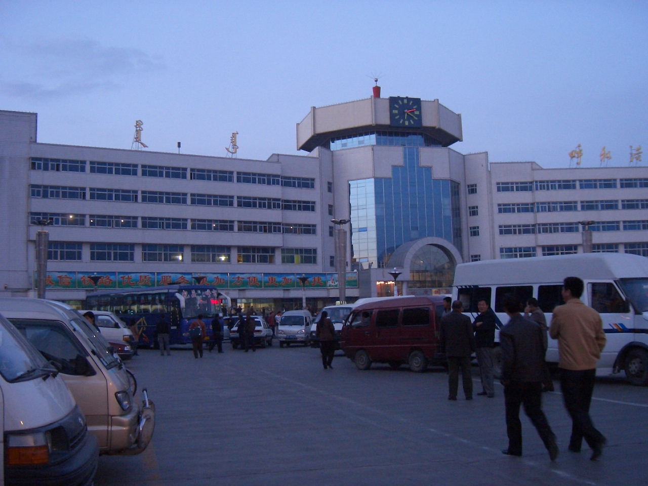 Huhehaote (Hohhot) railway station at dusk. Hohhot is the capital of Inner Mongolia, China.